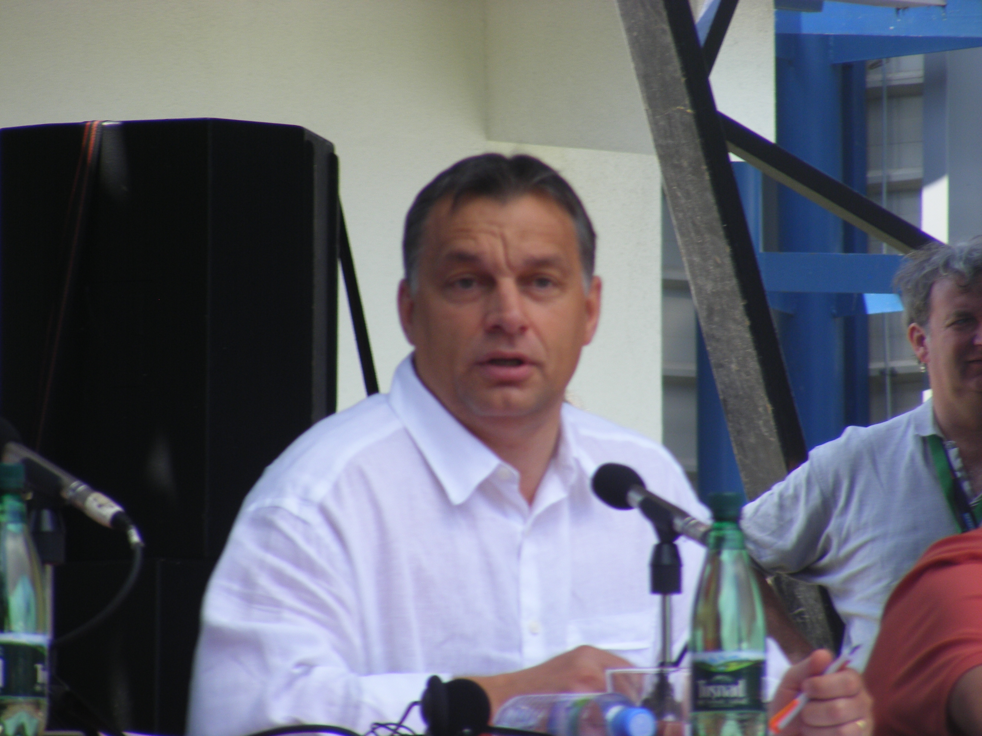 Viktor Orbán, prim-minister of Hungary in 2010